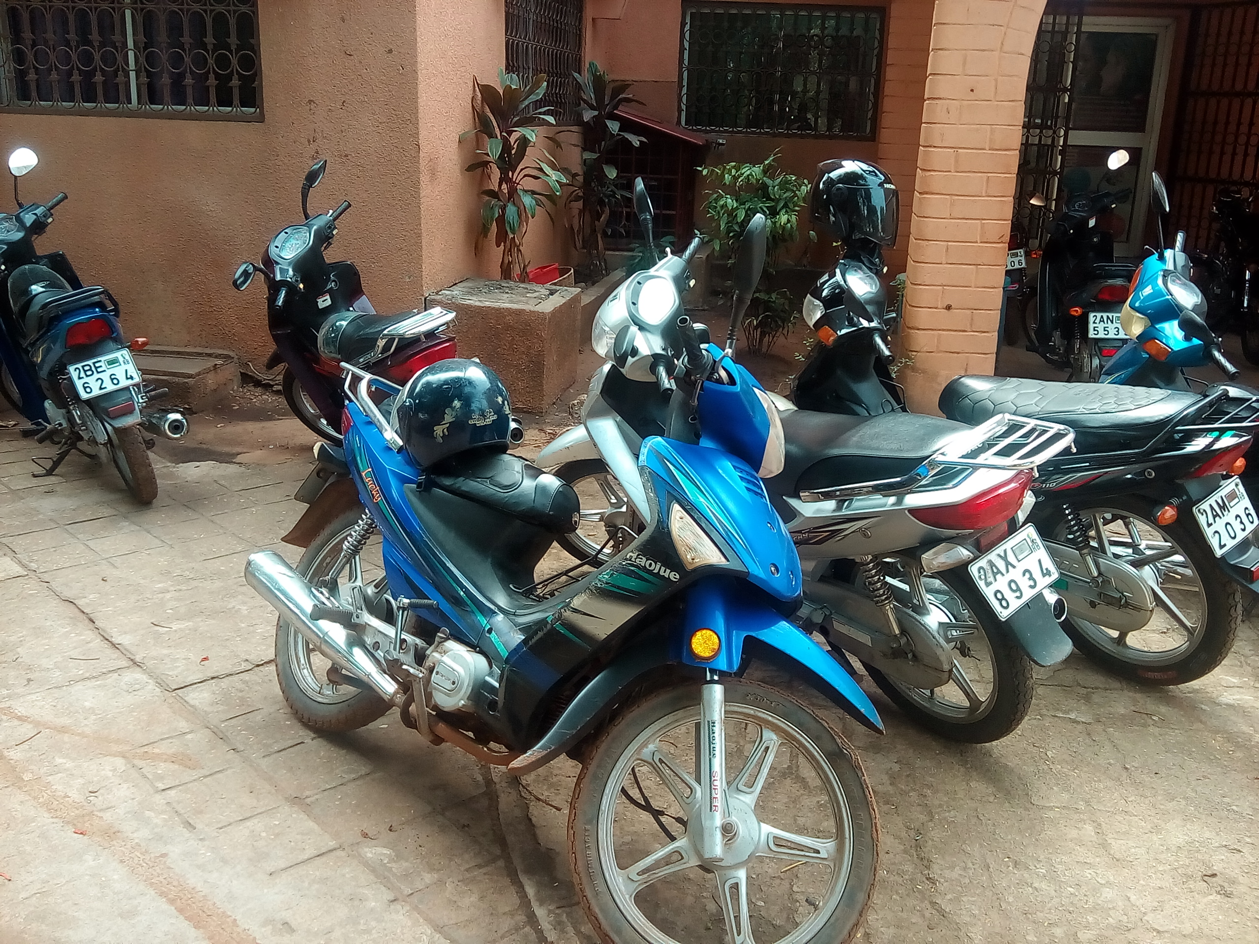 This is an image with the theme "Africa on the Move or Transport" from: Benin